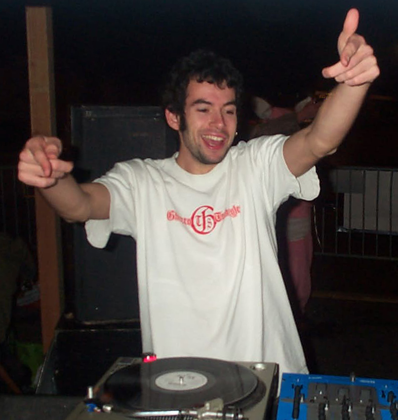 The above shot was taken when he played at our Boombox in 2002, at Burningman Decompression. He was one talented DJ and a cool dude.